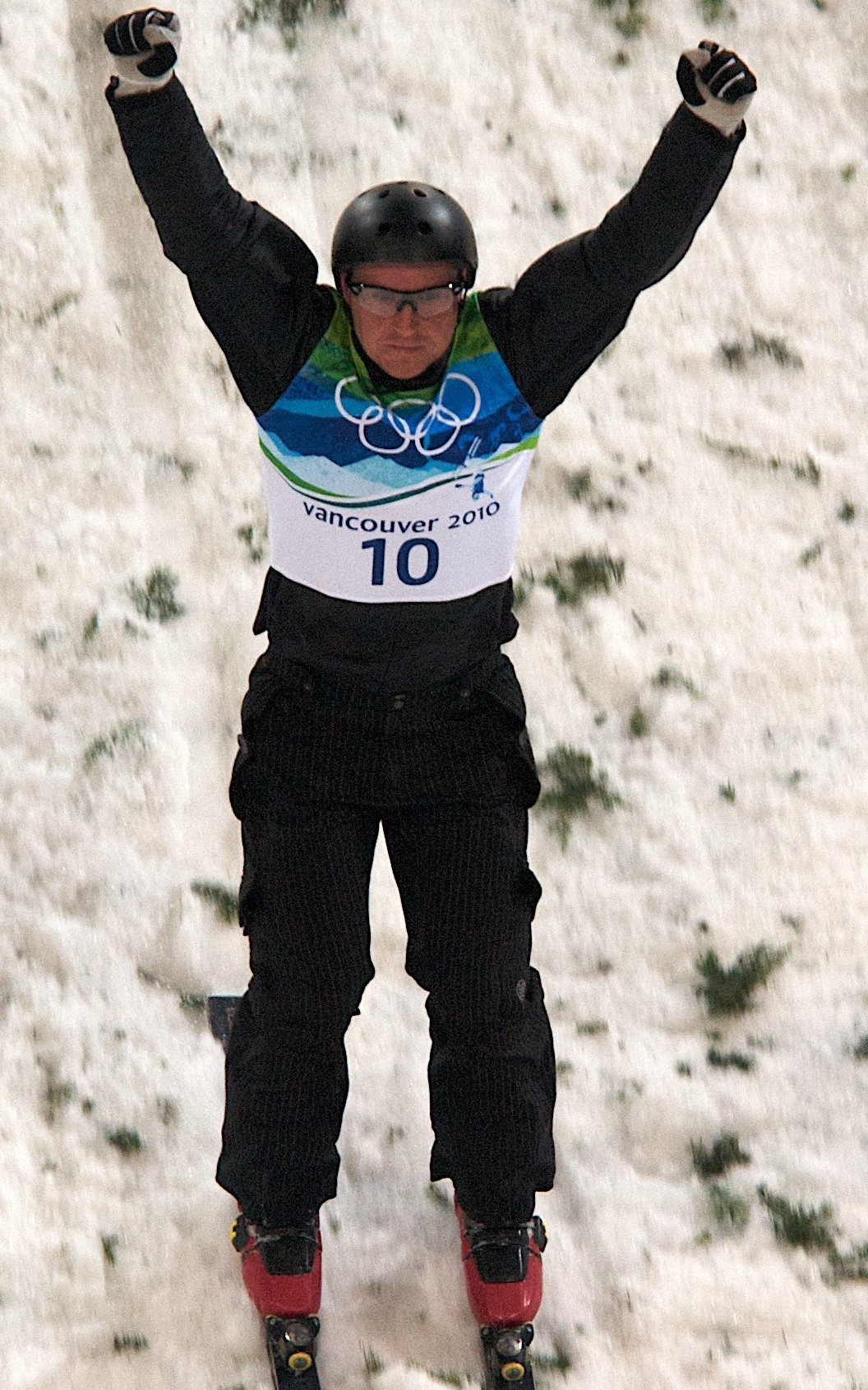 Results: 1. Belarus. GRISHIN Alexei (Tenth seed number in the protocol event) 2. United States. PETERSON Jeret 3. China. LIU Zhongqing